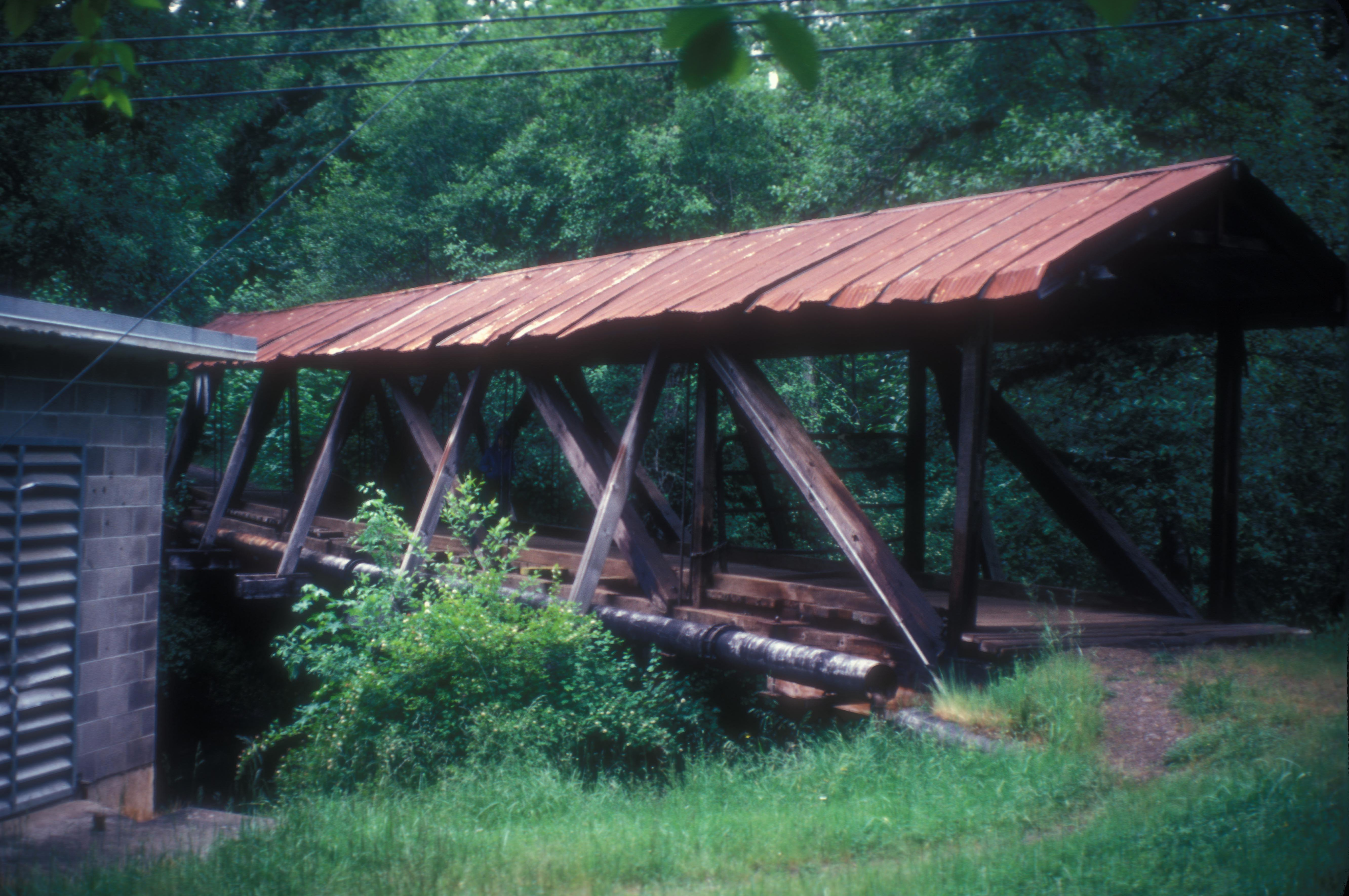 84' 1916 HOWE OVER RICKREALL CREEK (1987 DESTROYED IN FLOOD)